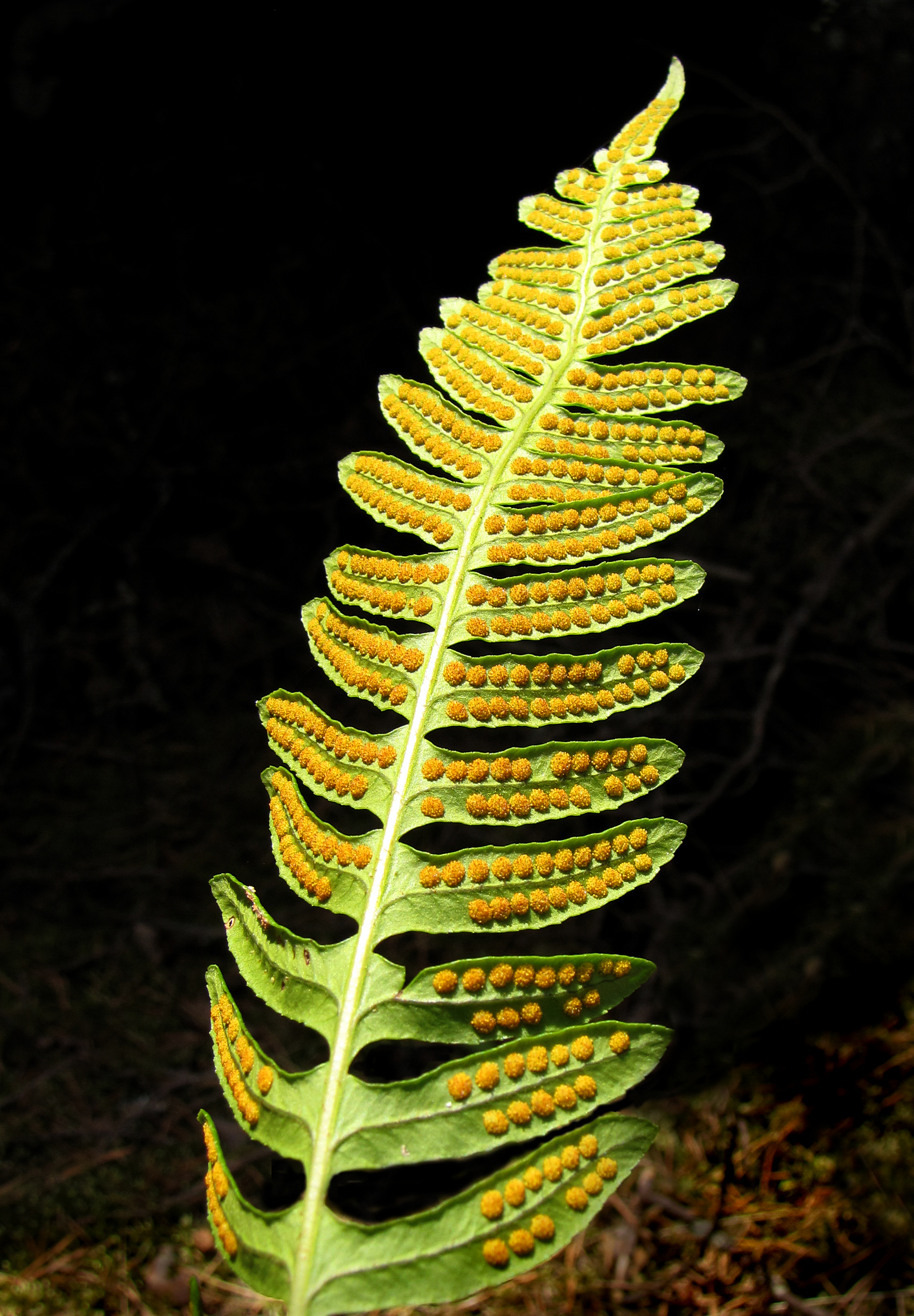 Sori can be seen on the underside of a frond of Polypodium vulgare, photographed in Finland.